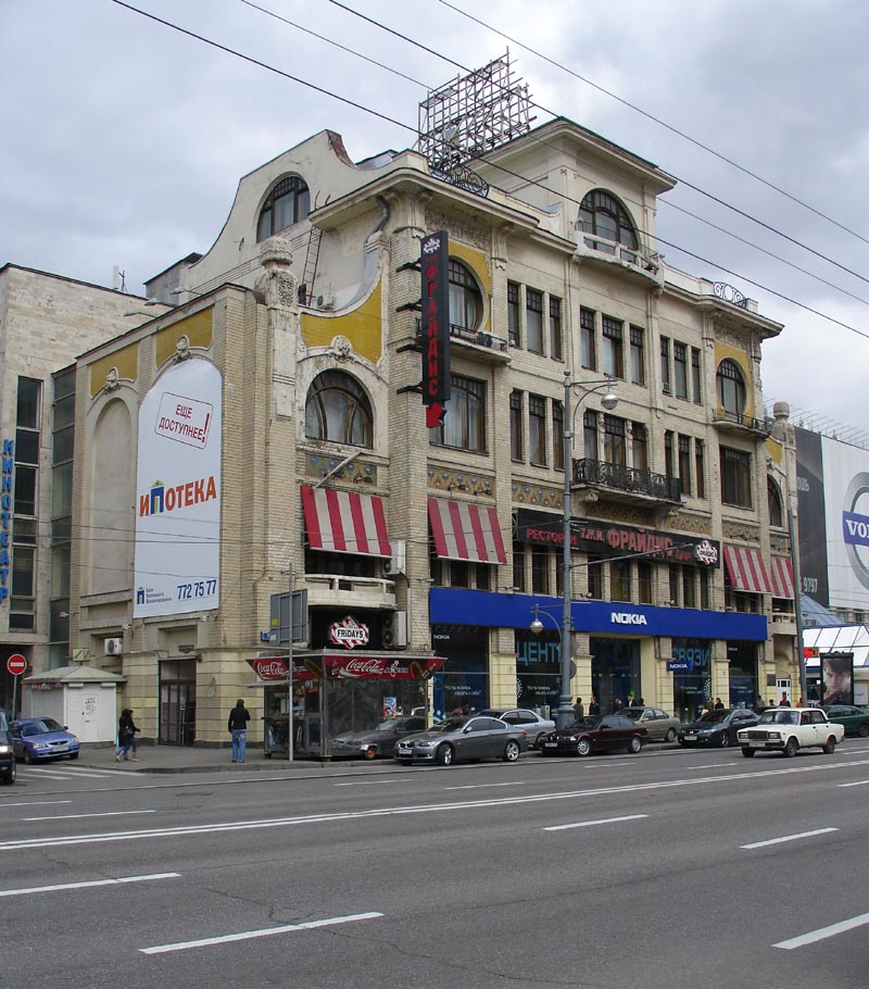 18b, Tverskaya Street, Moscow by Adolph Erichson (former Sytin printshop). 1911-1912. This building used to stand some 50 meters to the right; in 1970s it was moved to a new foundation to make way for Izvestia building expansion.